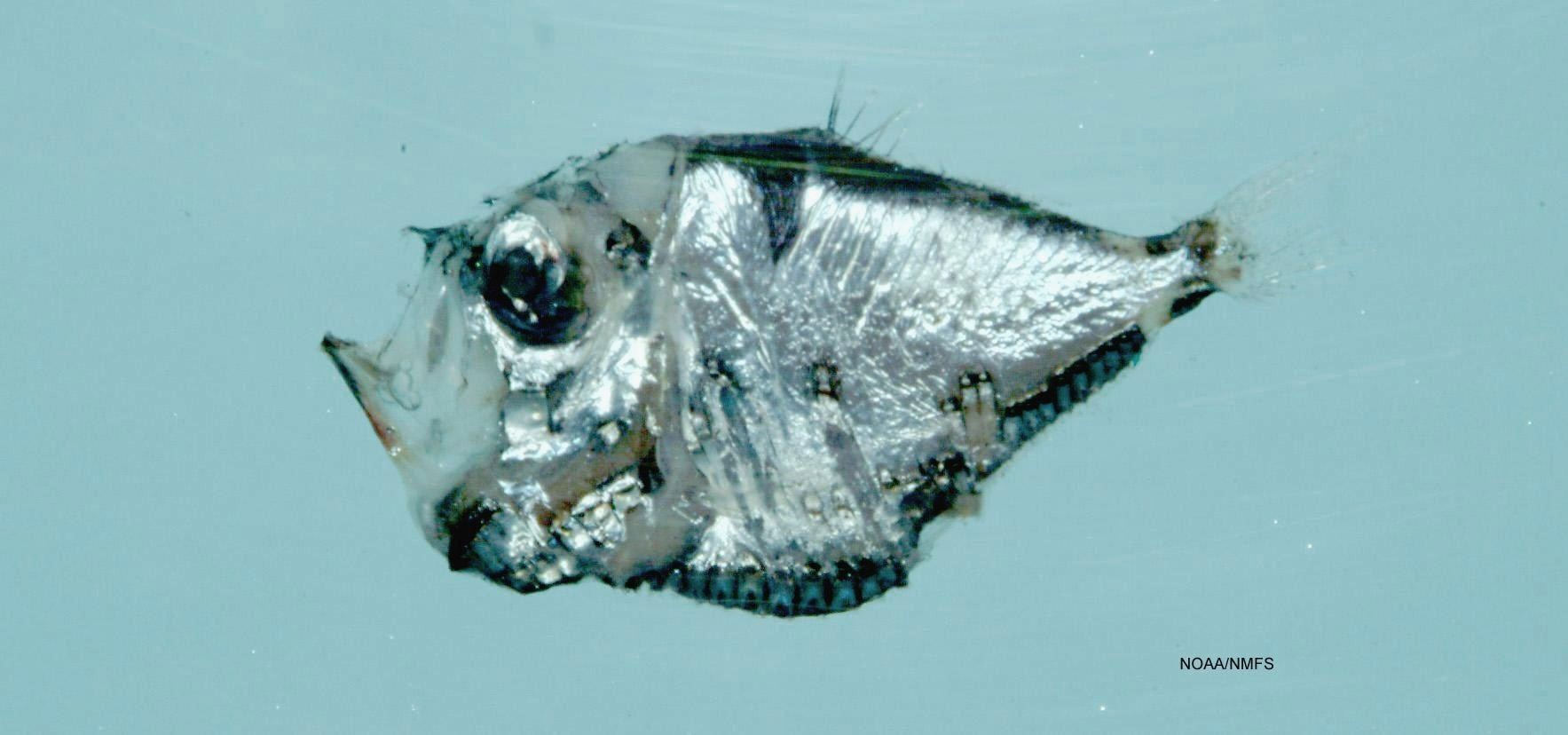 A member of the marine hatchetfish subfamily ( Polyipnus asteroides ). Gulf of Mexico.